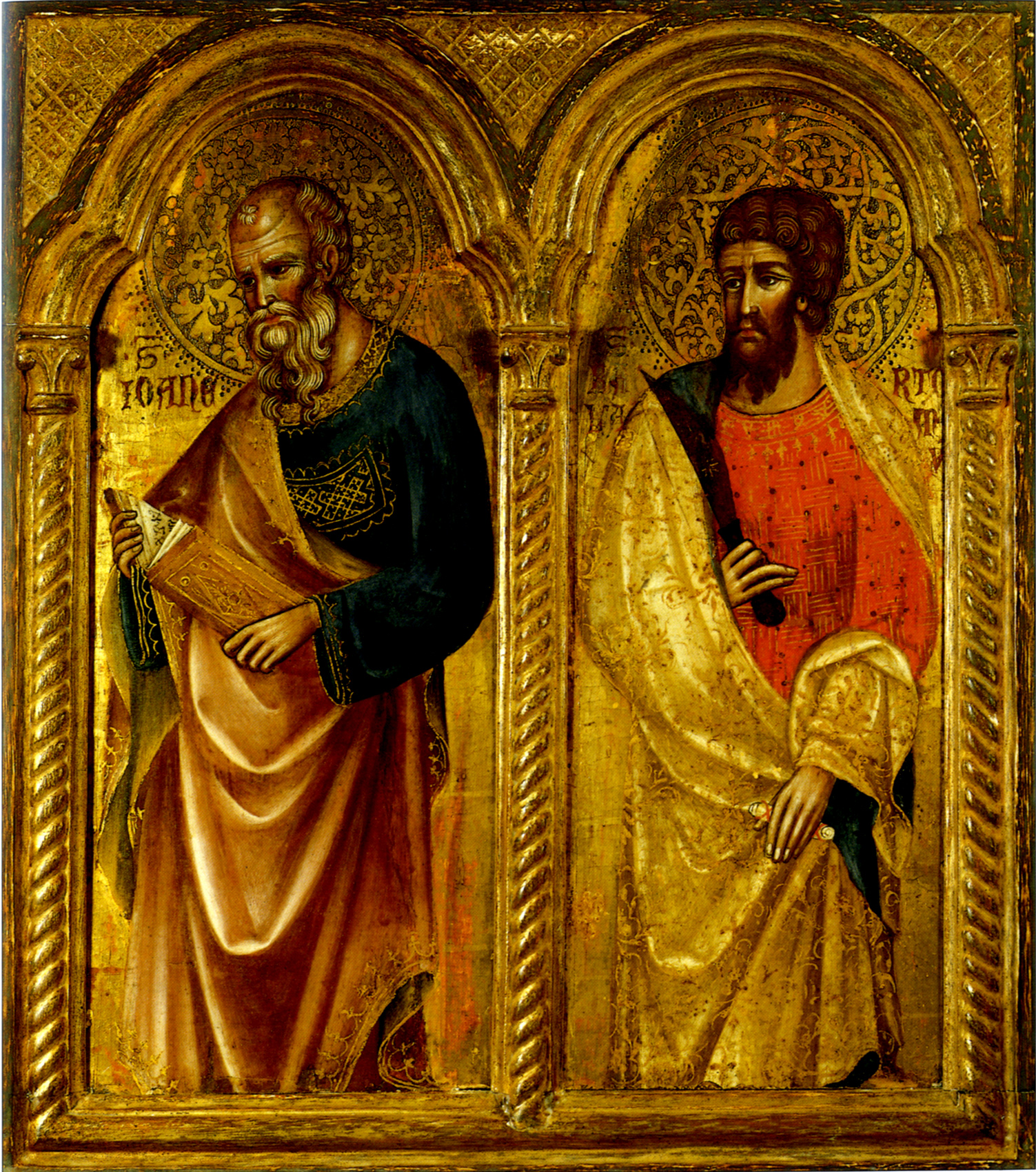 Attributed to Paolo Veneziano, Apostles St James and St Bartholomew, about 1345, Tempera and gold on panel, 48.8 x 42 cm Zagreb, Muzej Mimara. CAUTION: this museum may be full of fakes, see for example AP or Thomas Hoving.